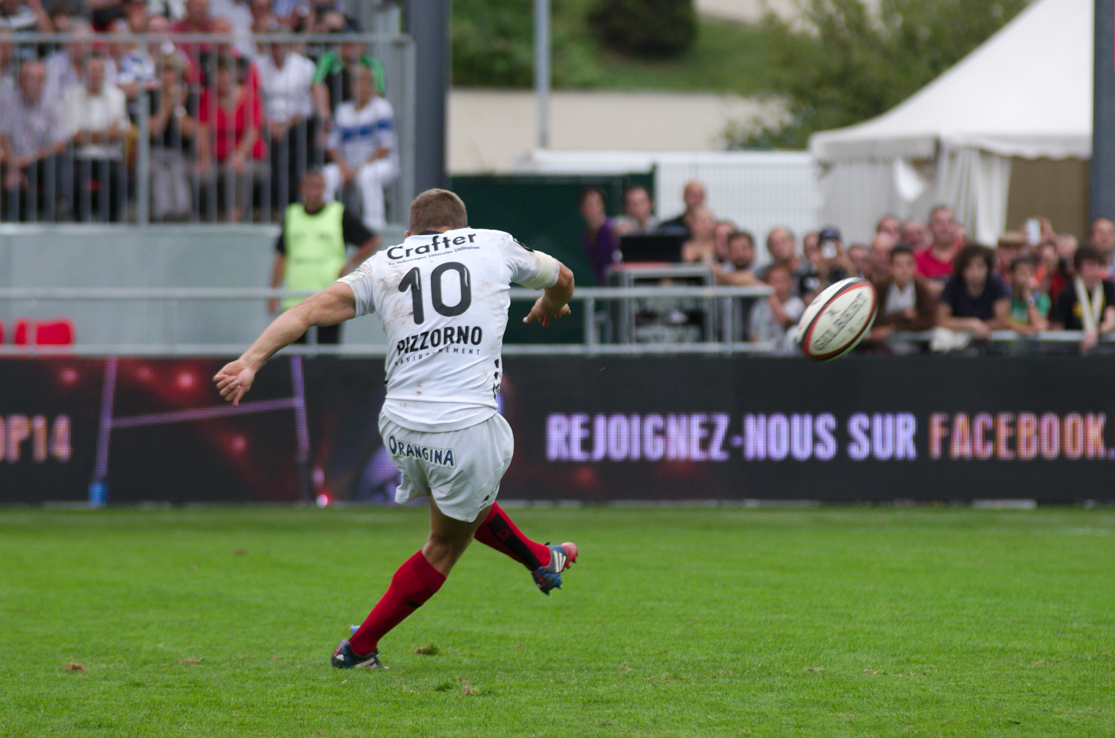 USO - RCT - 28-09-2013 - Stade Mathon - Jonathan Wilkinson